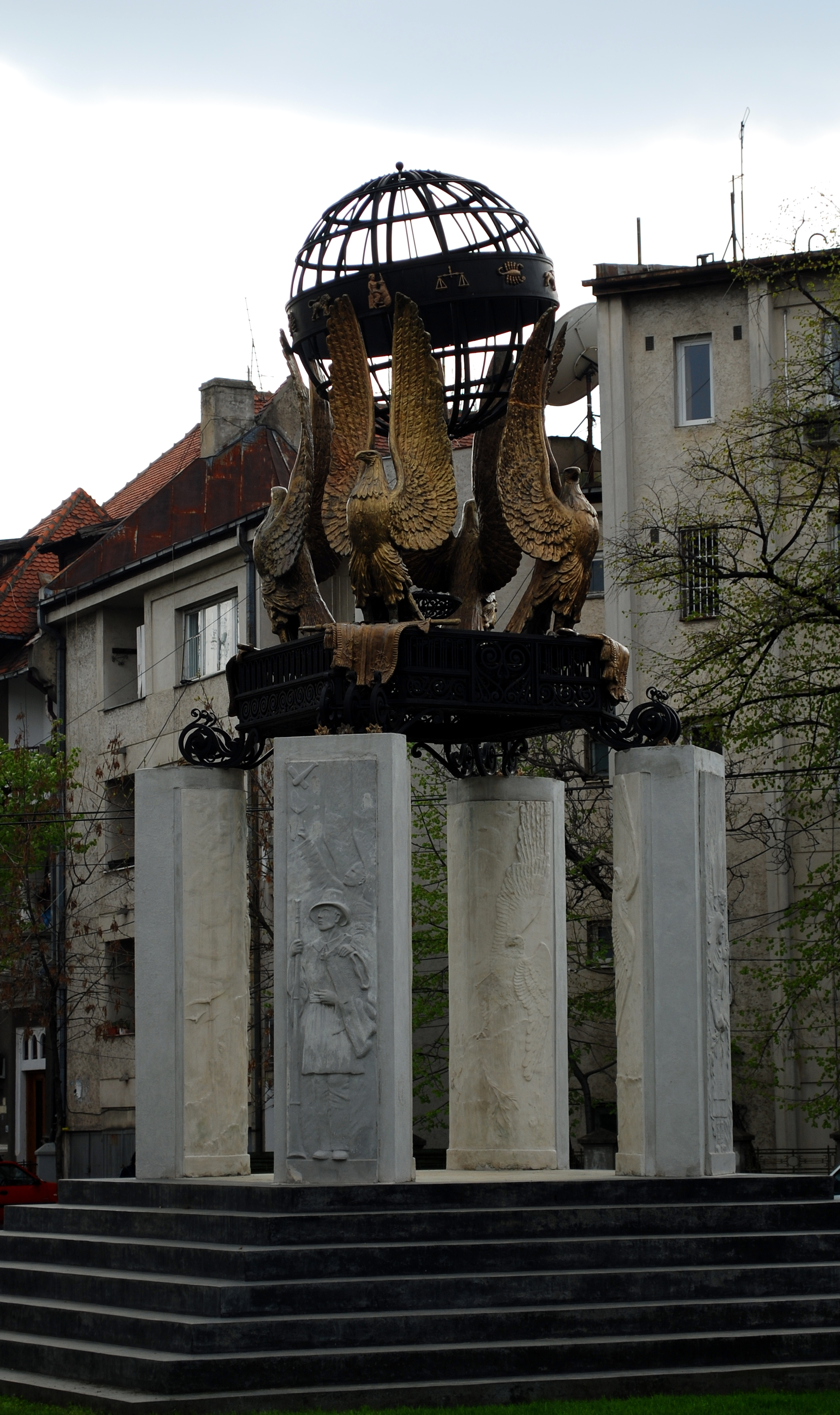 The Air Monument in Quito Square, Bucharest, Romania, by F.L. Gove (1937), in memory of Mircea Zorileanu.